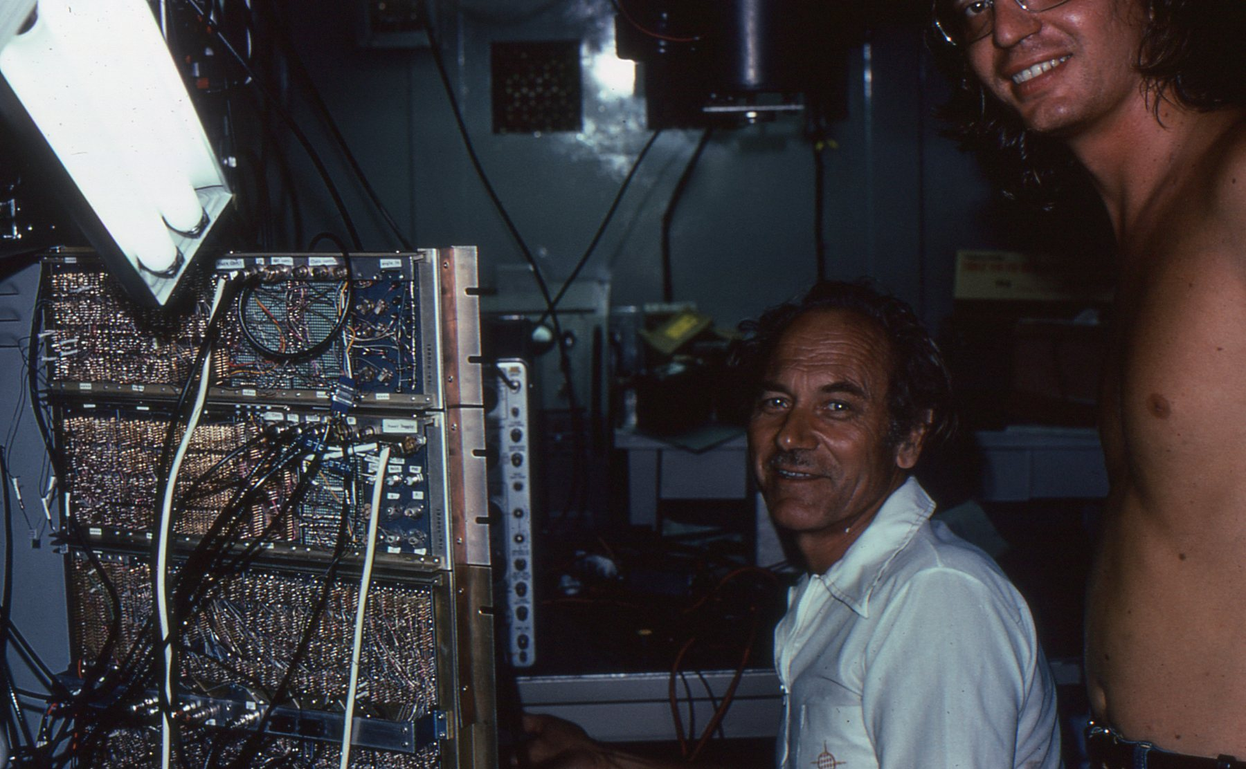 Roger and his radar in Clewiston, FL